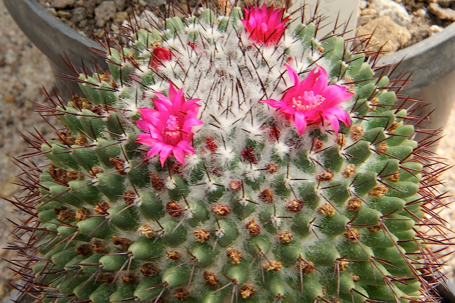 Mammillaria rhodantha subsp. rhodantha